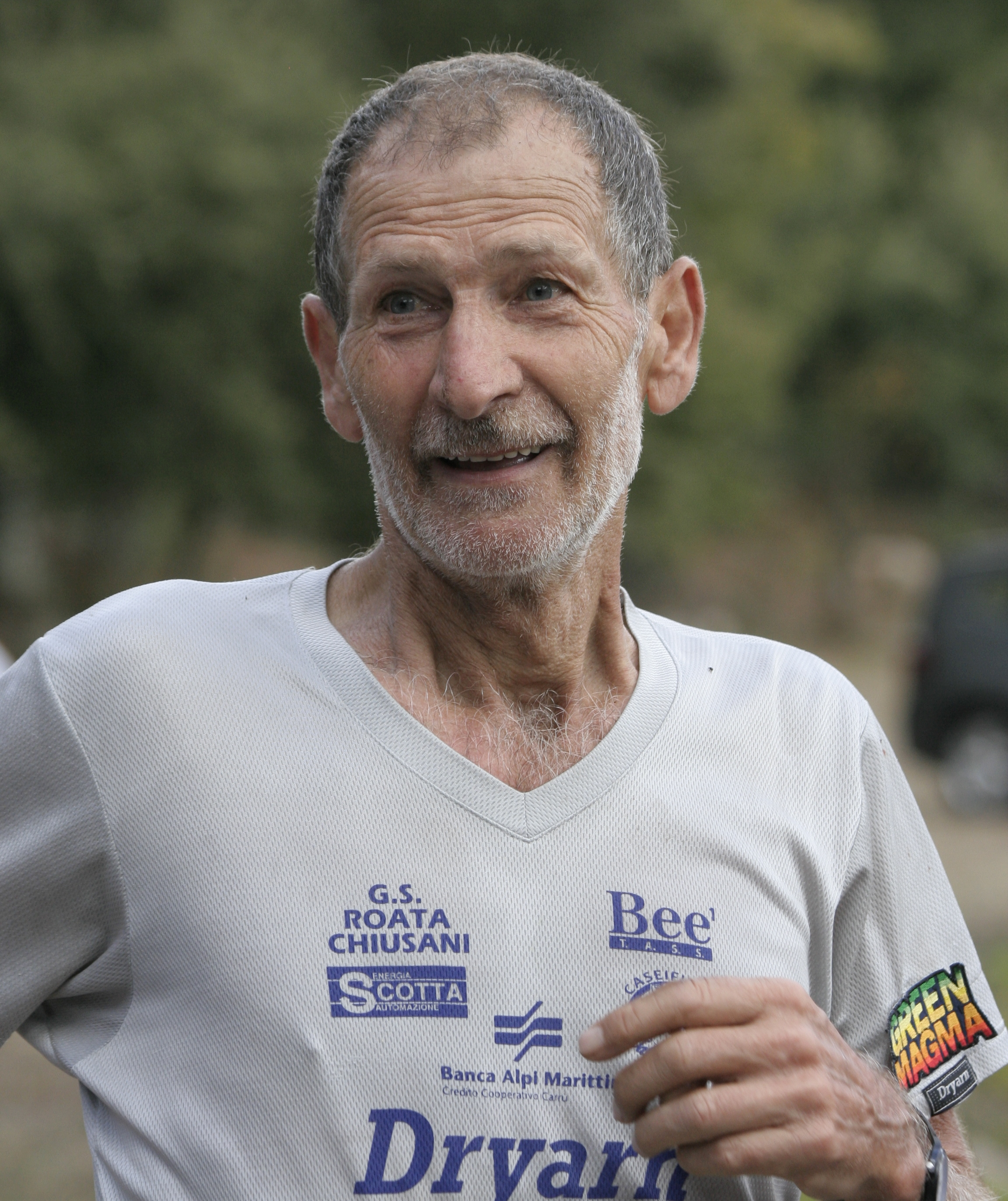 Marco Olmo, italian 63 years ultramarathoner at the and of a 60 km trail race